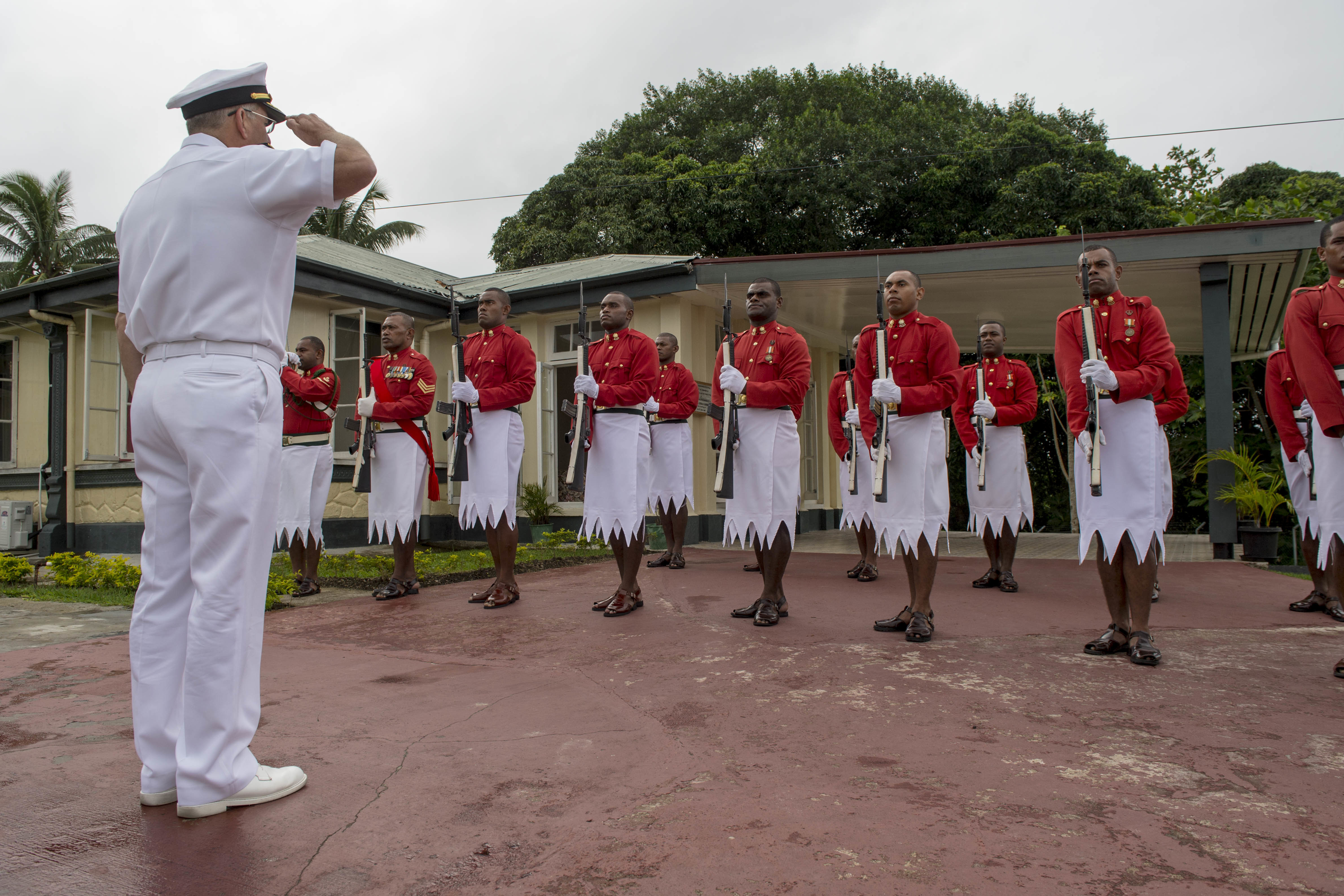 Rear Adm. Bruce Gillingham, commander of Navy Medicine West, receives a presidential salute from the Republic of Fiji Military Forces Quarter Guard at the RFMF Strategic Headquarters during Pacific Partnership 2015. The hospital ship USNS Mercy (T-AH 19) is in Suva, Fiji, for its first mission port of PP15. Pacific Partnership is in its 10th iteration and is the largest annual multilateral humanitarian assistance and disaster relief preparedness mission conducted in the Indo-Asia-Pacific region. While training for crisis conditions, Pacific Partnership missions to date have provided real world medical care to approximately 270,000 patients and veterinary services to more than 38,000 animals. Additionally, the mission has provided official infrastructure development to host nations through more than 180 engineering projects. (U.S. Air Force photo by Senior Airman Peter Reft/RELEASED)